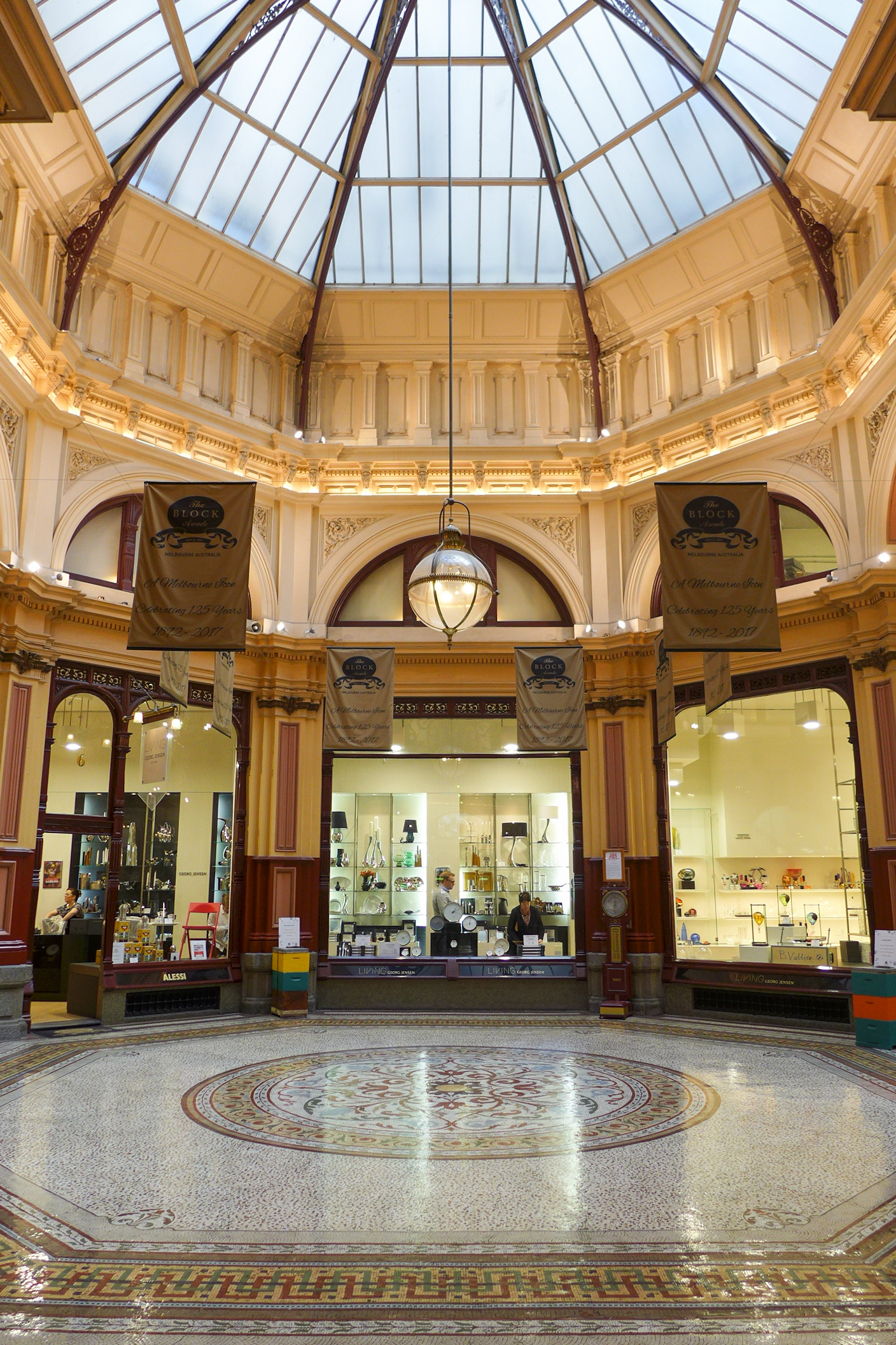 The Block Arcade Clock